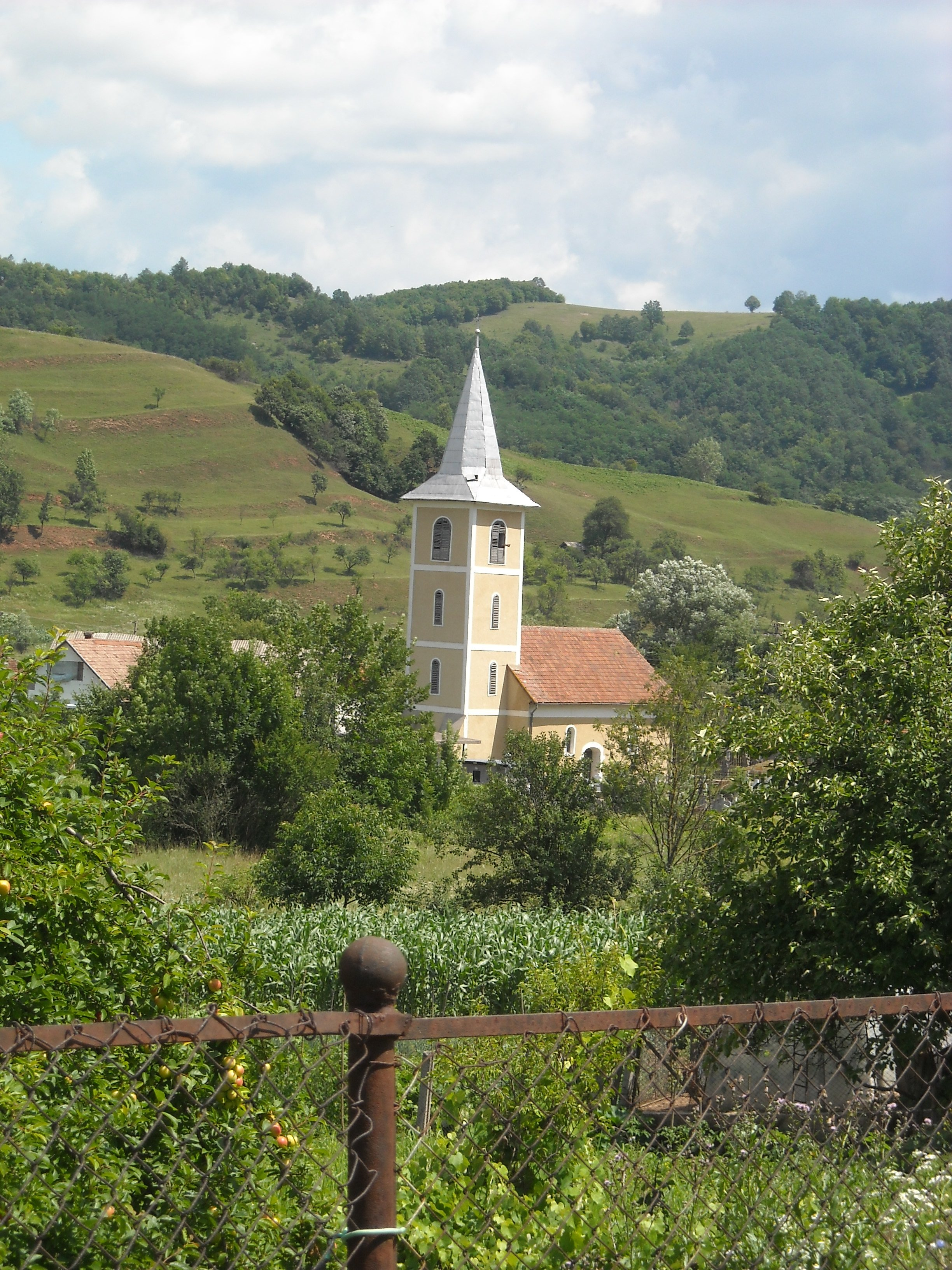 Orthodox church in Băița, Romania